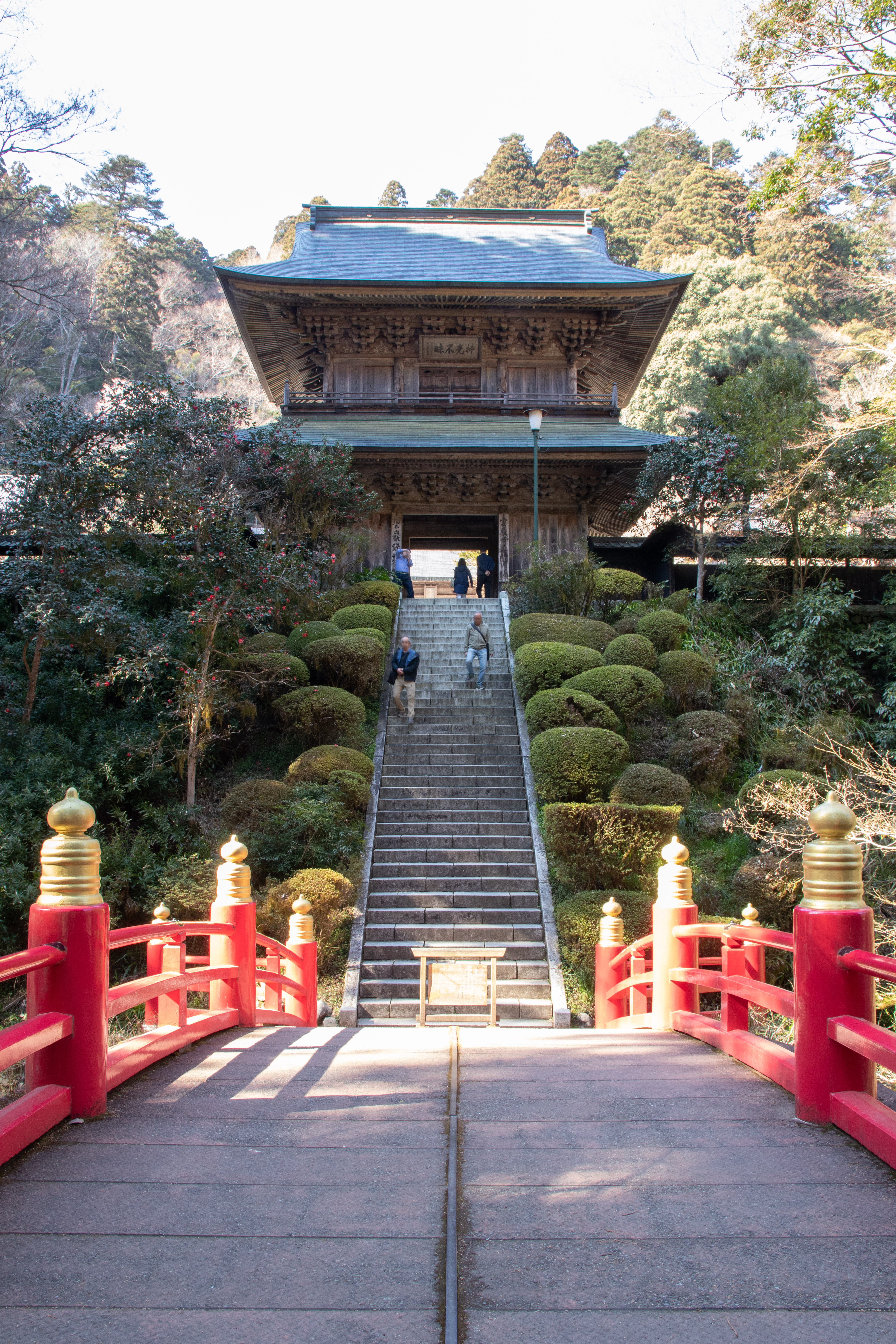 Tozan Ungan-ji Temple, Otawara City, Tochigi, Japan Canon EOS 80D + Sigma 17-70mm F2.8-4 DC Macro OS HSM